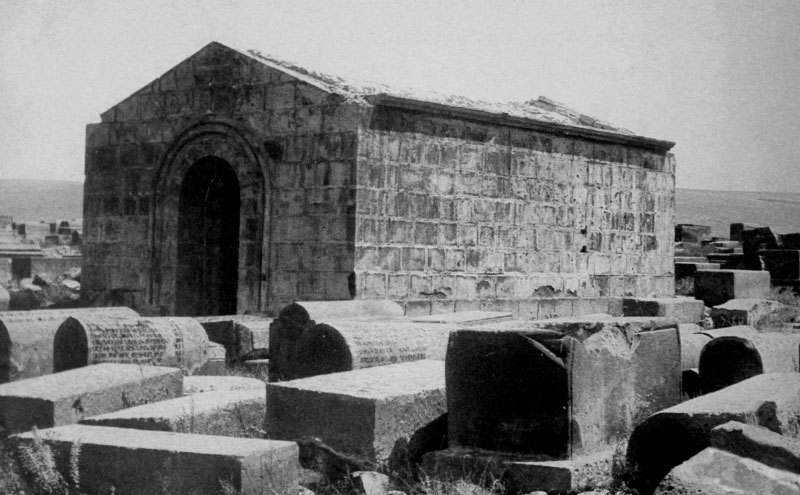 Hovhannes Kozern tomb